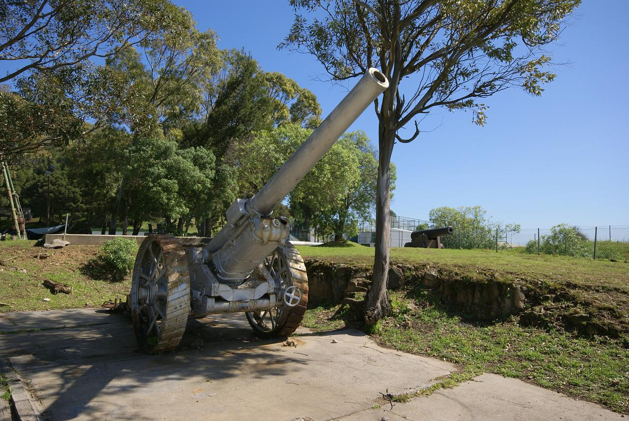 Photograph of WWI-era BL 6 inch Mk XIX field gun, at Lion's Battery on Signal Hill, Cape Town, South Africa.